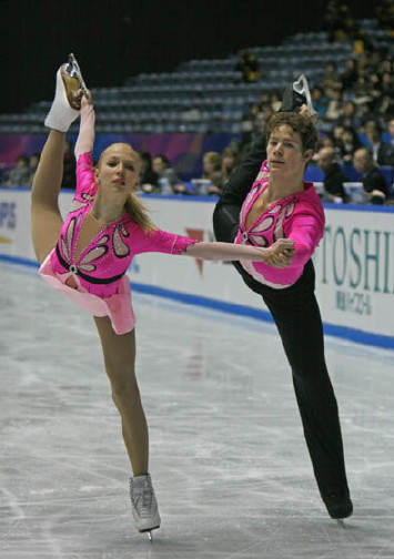 Maria Sergejeva and Ilja Glebov (EST) at the NHK Trophy 2008